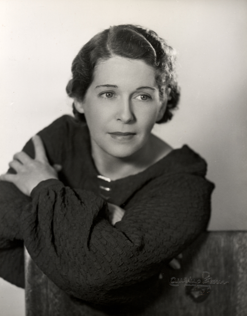 Virginia Brissac 1938 (Hollywood, CA)